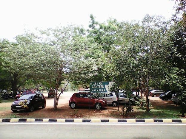 Karnataka, India.